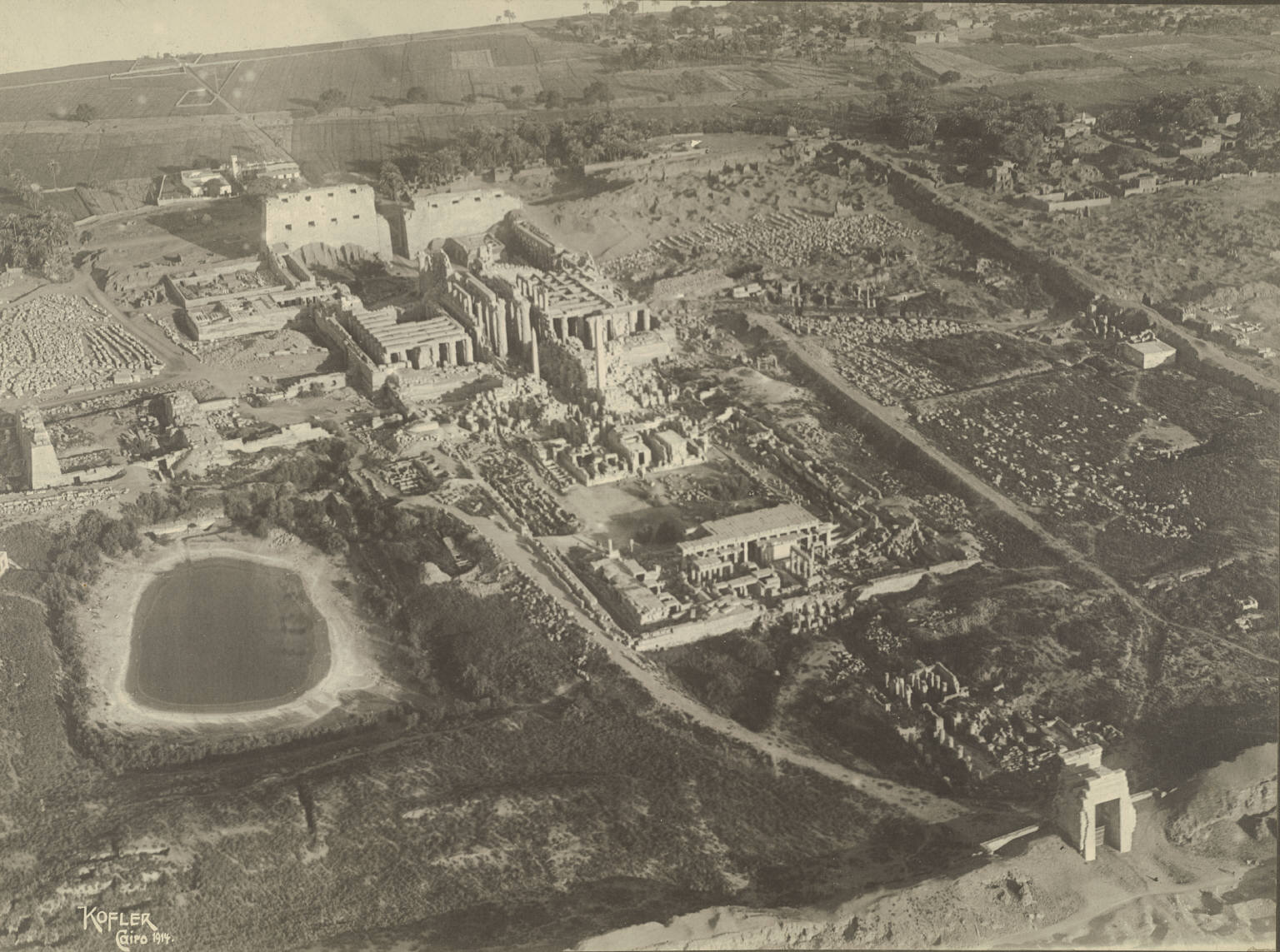 Collection: A. D. White Architectural Photographs, Cornell University Library Accession Number: 15/5/3090.01487 Title: Temple Complex at Karnak Photographer: Kofler Photograph date: 1914 Location: Africa: Egypt; Karnak Materials: gelatin silver print Image: 10.8268 x 14.5669 in.; 27.5 x 37 cm Style: Egyptian Provenance: Transfer from the College of Architecture, Art and Planning Persistent URI: There are no known U.S. copyright restrictions on this image. The digital file is owned by the Cornell University Library which is making it freely available with the request that, when possible, the Library be credited as its source. We had some help with the geocoding from Web Services by Yahoo!